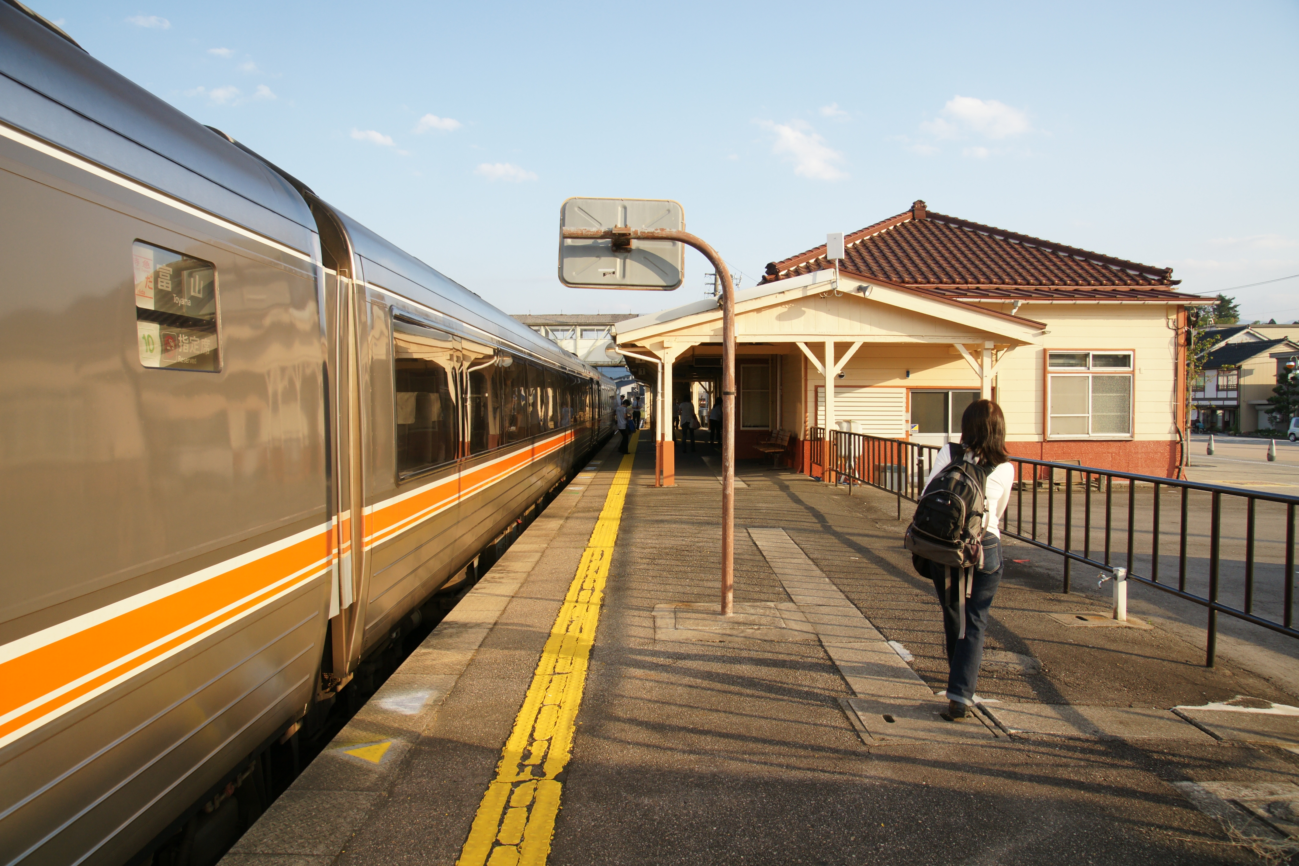 A JR Central Kiha 85 series DMU on a Hida service at Etchū-Yatsuo Station in Toyama, Toyama prefecture, Japan